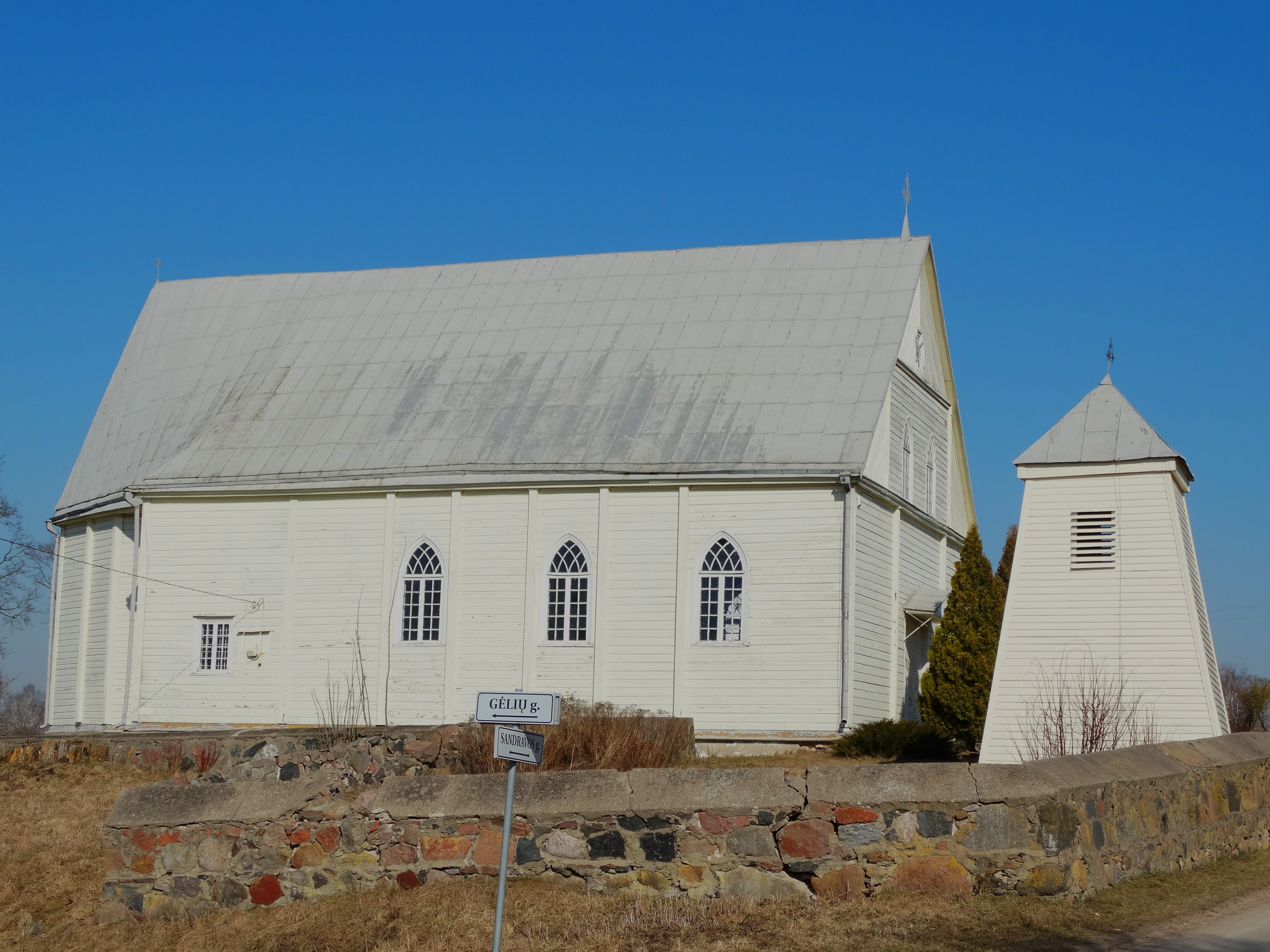 Church of St. Anthony of Padua, Žaiginys, Raseiniai district, Lithuania